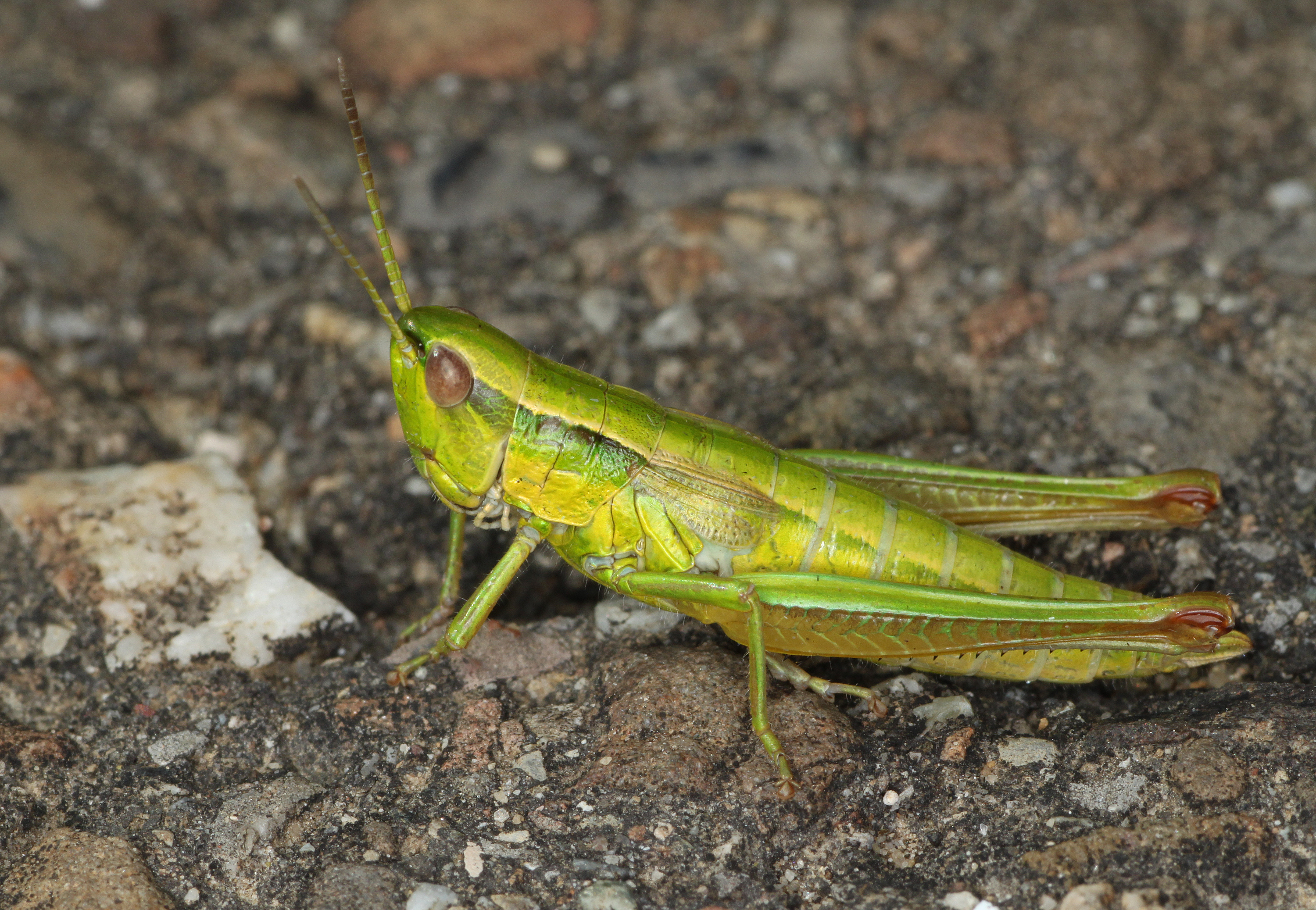 Euthystira brachyptera syn. Chrysochraon brachyptera (female), Family: Acrididae, Location: Germany, Ulm, Ermingen